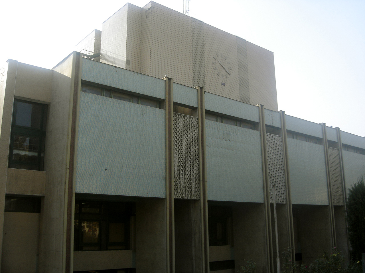 University of Tehran Central Library